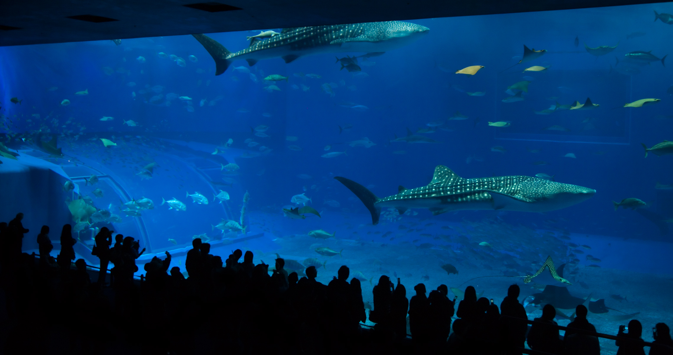 Churaumi Aquarium, Okinawa main tank Kuroshio Sea